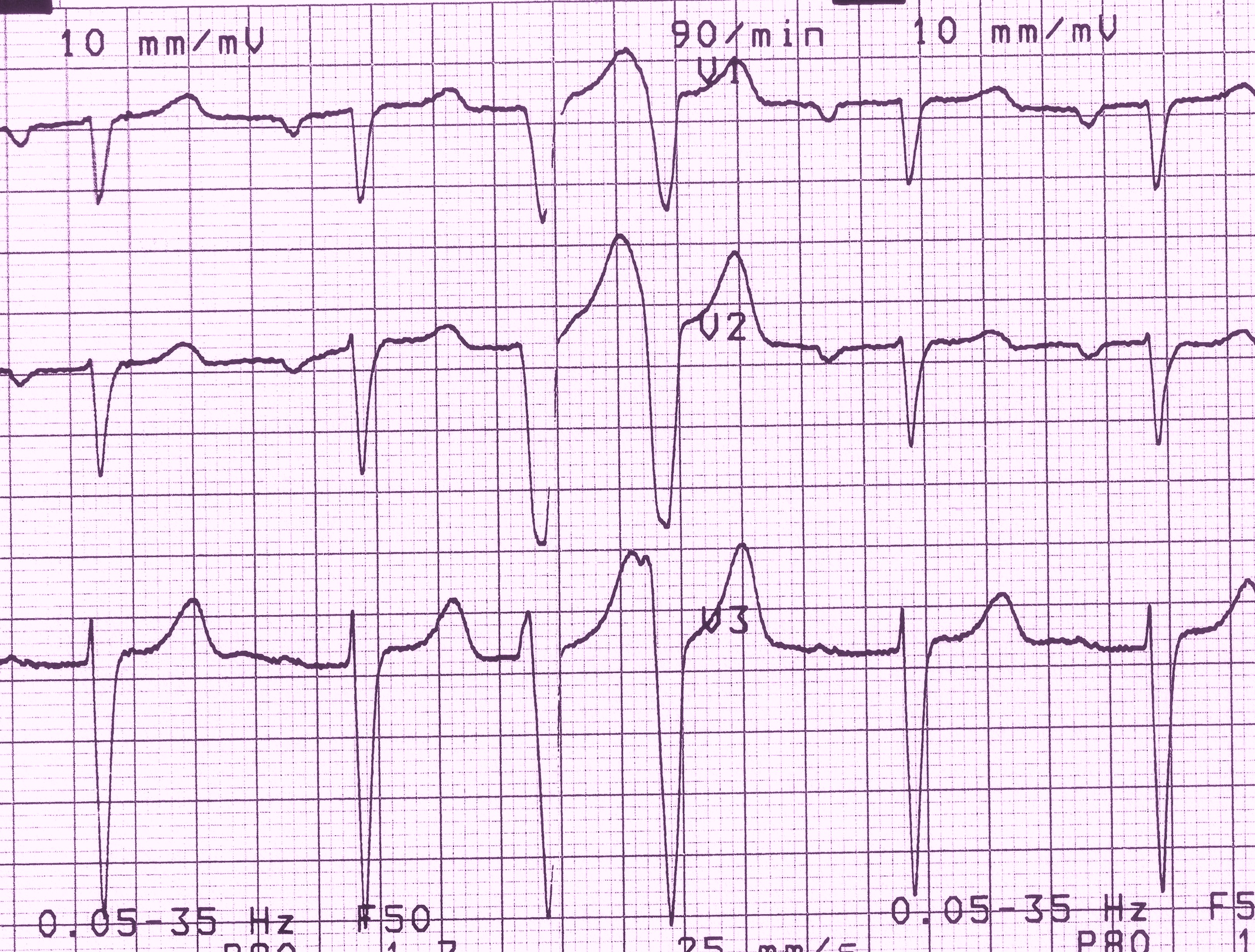 premature heart beats